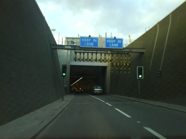 Entering the Blackwall Tunnel Northbound This was taken from the passenger seat of a car going northbound on the A102 at about 30mph. The black and yellow pendulums are intended to prevent overheight vehicles getting in, but amazingly they still manage to get in from time to time. It then causes utter chaos for hours and for miles around.